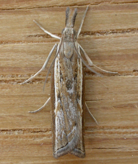 Ptochostola microphaeellus